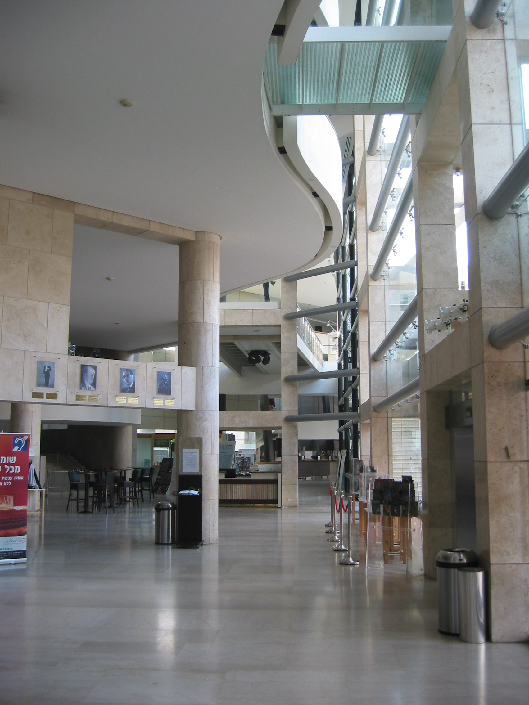 Performing Arts Center, Tel Aviv